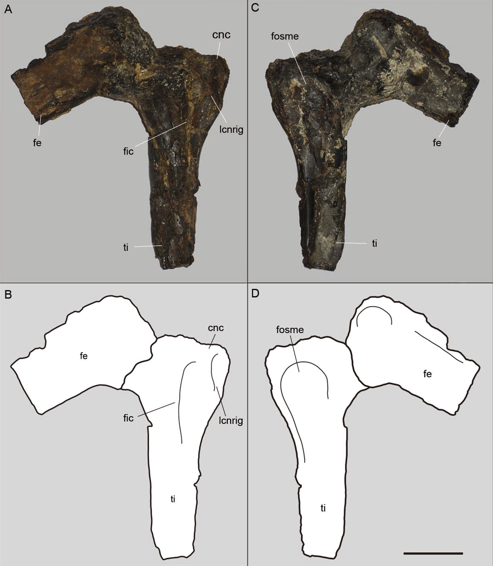 The holotype (MPSC R 2089) of Aratasaurus museunacionali gen. et sp. nov., photos and drawings from the lateral (A, B) and (C, D) medial views. Abbreviations: cnc, cnemial crest; fe, femur; fosme, fossa medial; lcnrig, lateral cnemial rigde; ti, tibia; tic, tibia crest. Scale bar: 50 mm.